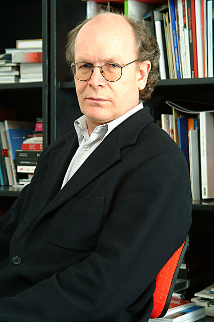 Depicted person: Alfons Hug – German curator